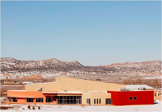 Rehoboth SFC Winter